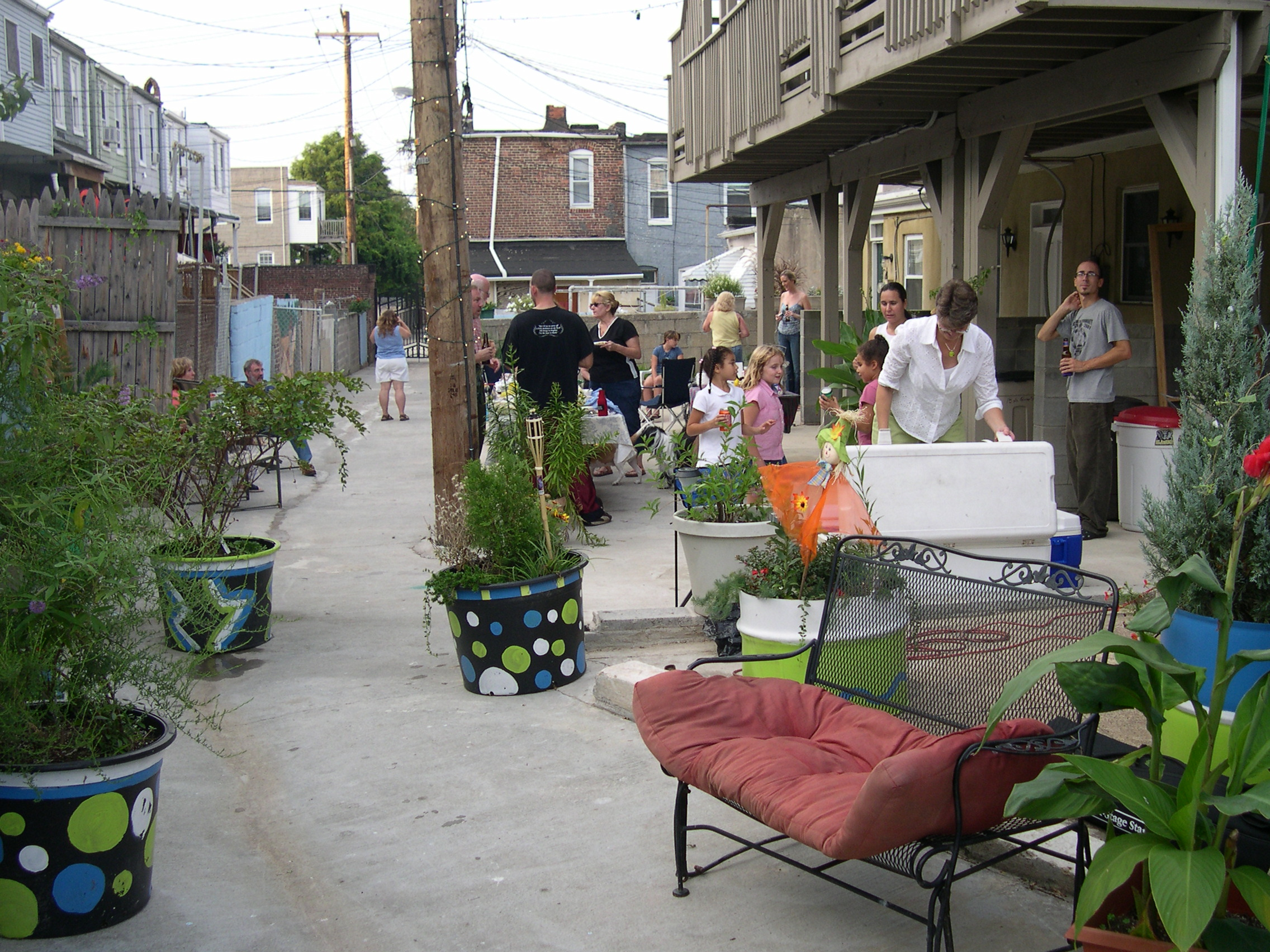 (Author: Kate Herrod, Director of Community Greens)